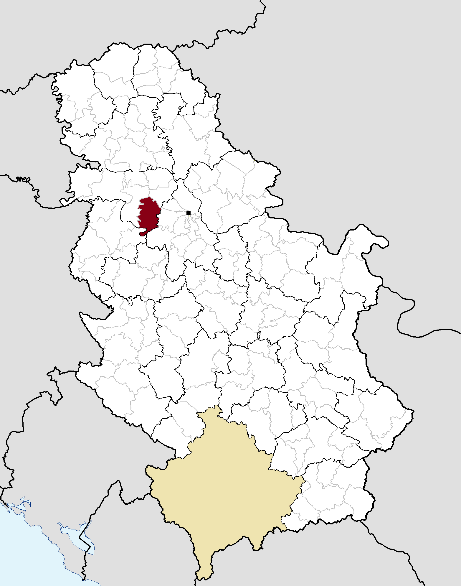 Municipal location in Serbia